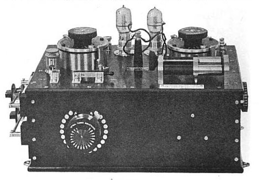 The Marconi Valve Tuner, an early unamplified radio receiver manufactured by the Marconi Company for use on ships to receive wireless telegraphy signals. It used the Fleming valve, the first vacuum tube, invented by John Ambrose Fleming as a detector to rectify the radio wave carrier and extract the Morse code "dots" and "dashes", The set had two valves (visible at top); one was a spare in case the other burned out.